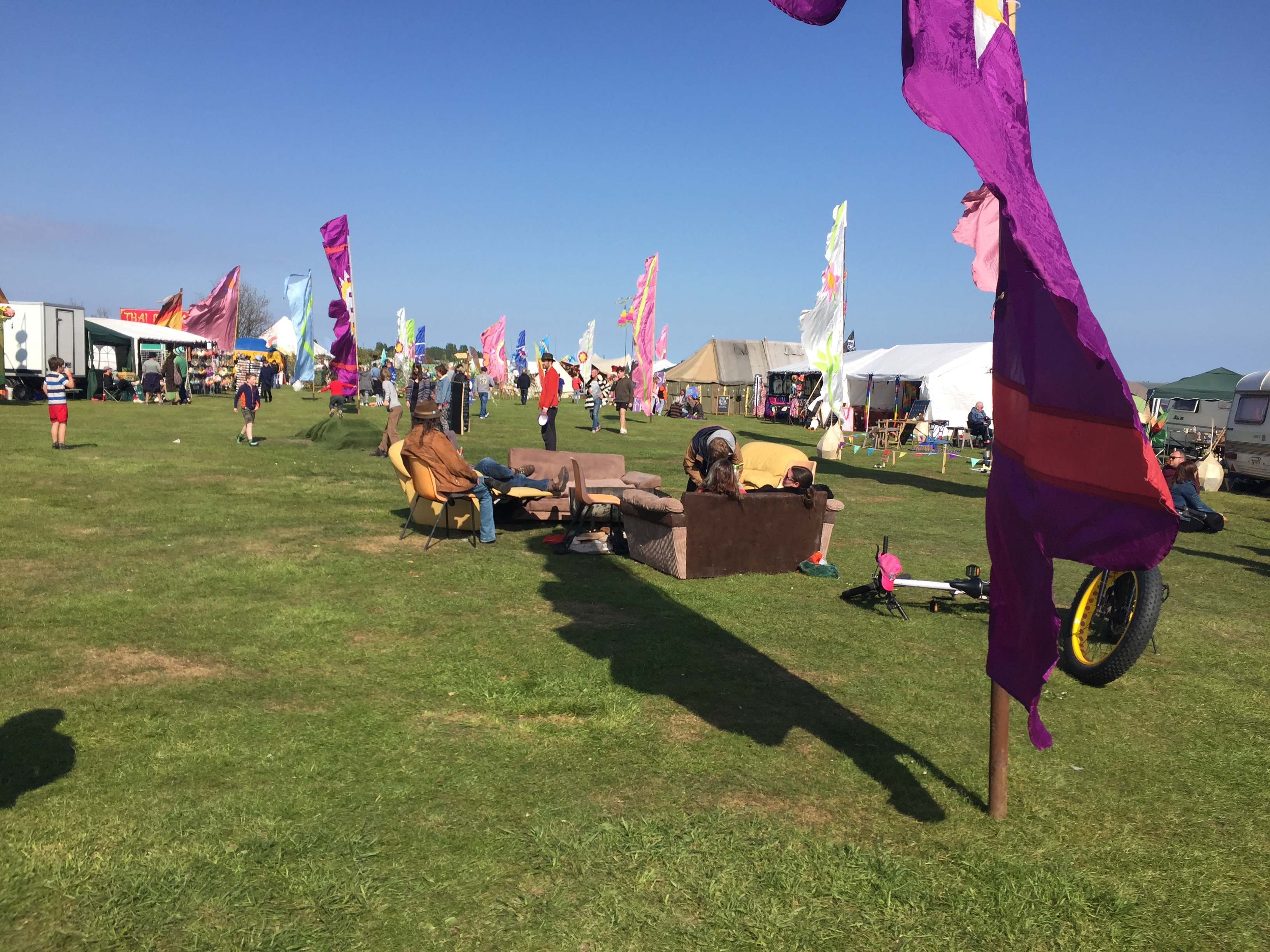 The main area of Cosmic Puffin Festival, during Cosmic Puffin 10 in 2017.